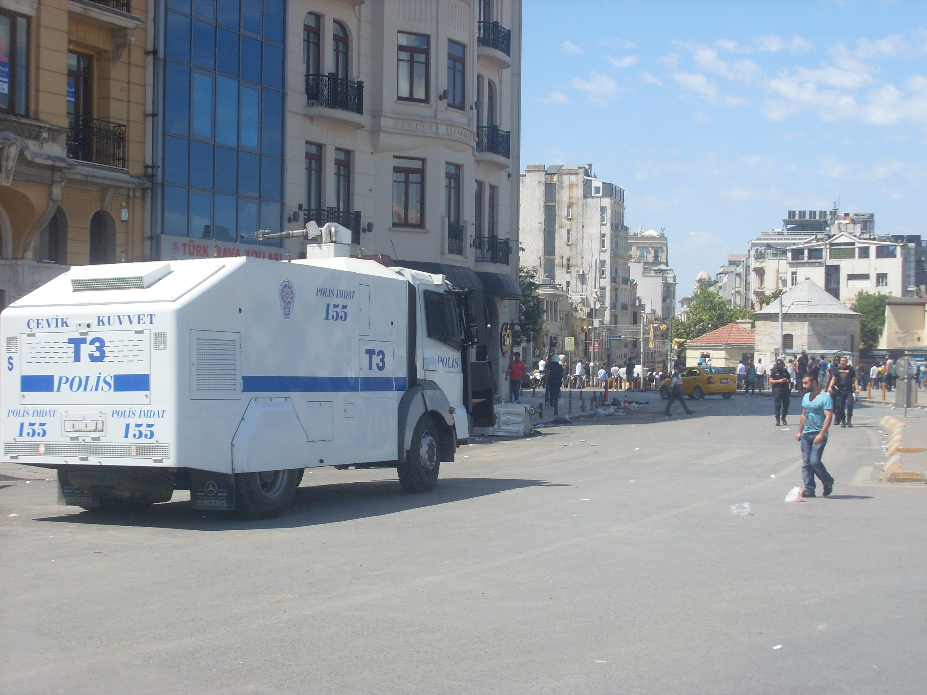 2013 Taksim Gezi Park protests P13